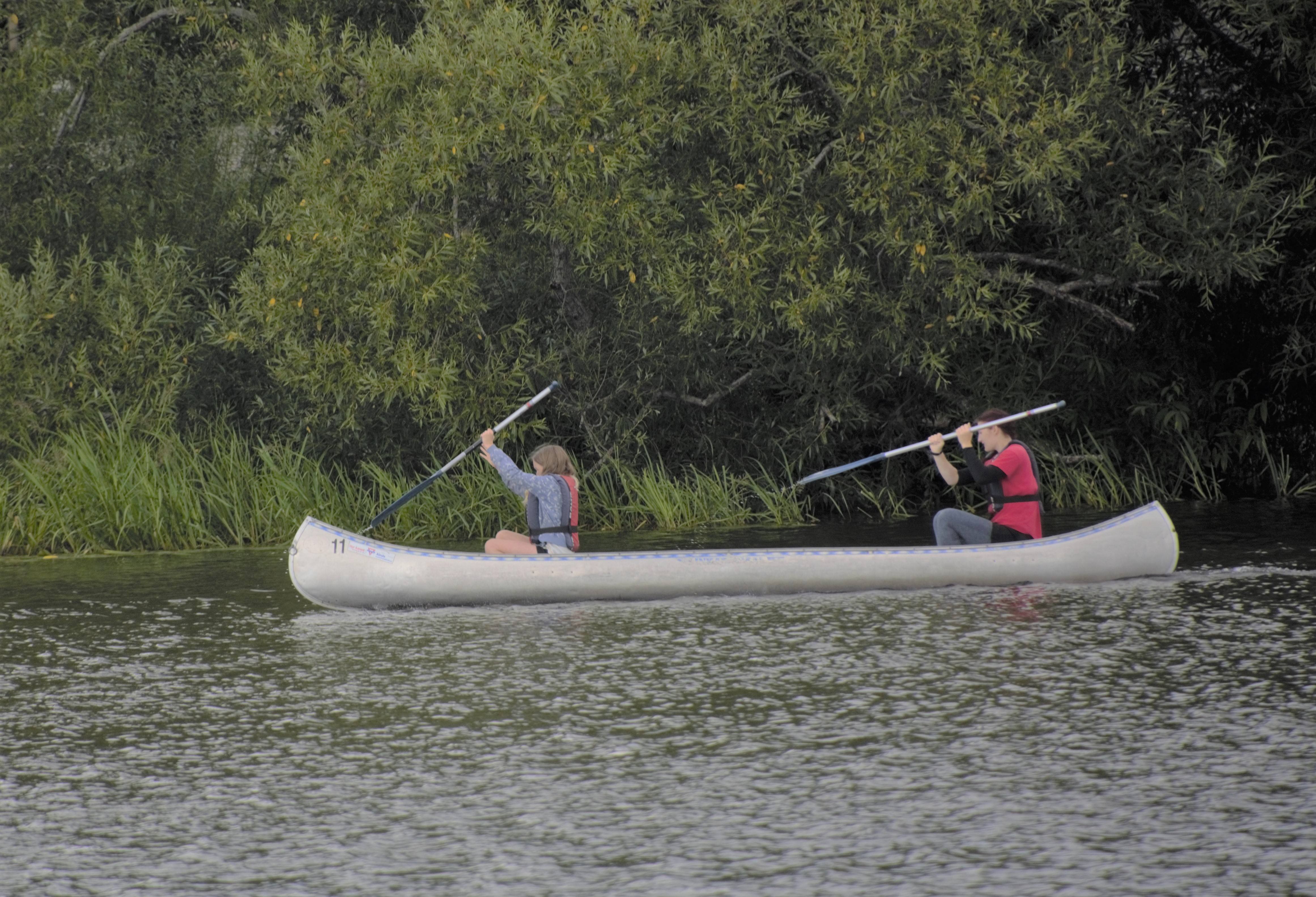 Canadian canoe at Hosjön near Malmköping, Sweden